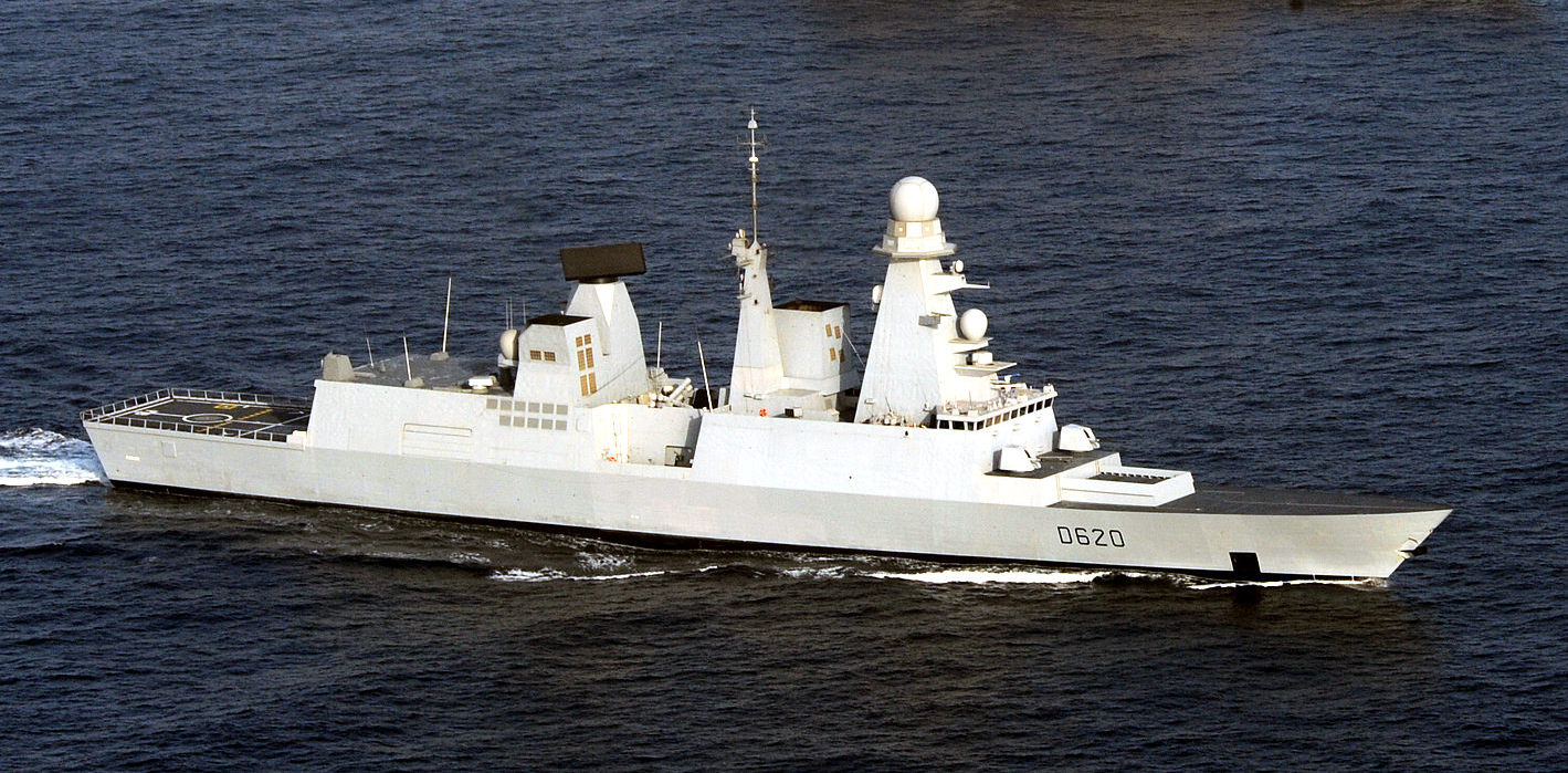 Arabian Sea: The French Navy destroyer Forbin (D620) operates alongside aircraft carrier USS Dwight D. Eisenhower (CVN 69). The Eisenhower Carrier Strike Group is deployed to the U.S. 5th Fleet area of responsibility during a scheduled deployment supporting Operation Enduring Freedom and maritime security operations.